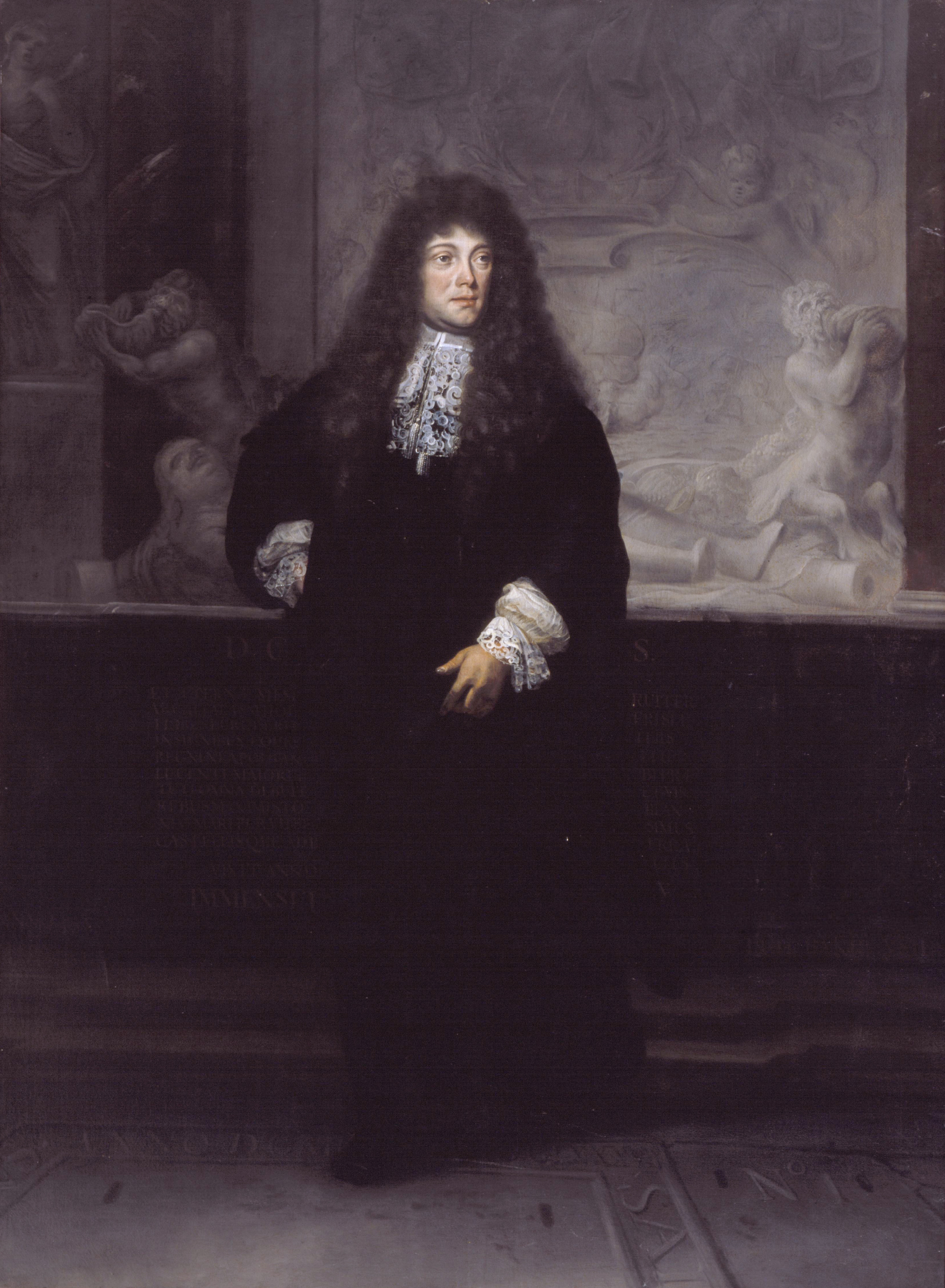 Portrait of Petrus Francius (1645-1704)